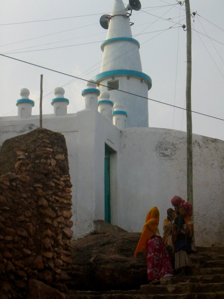 Mosque inside the old city of Harar (Ethiopia).